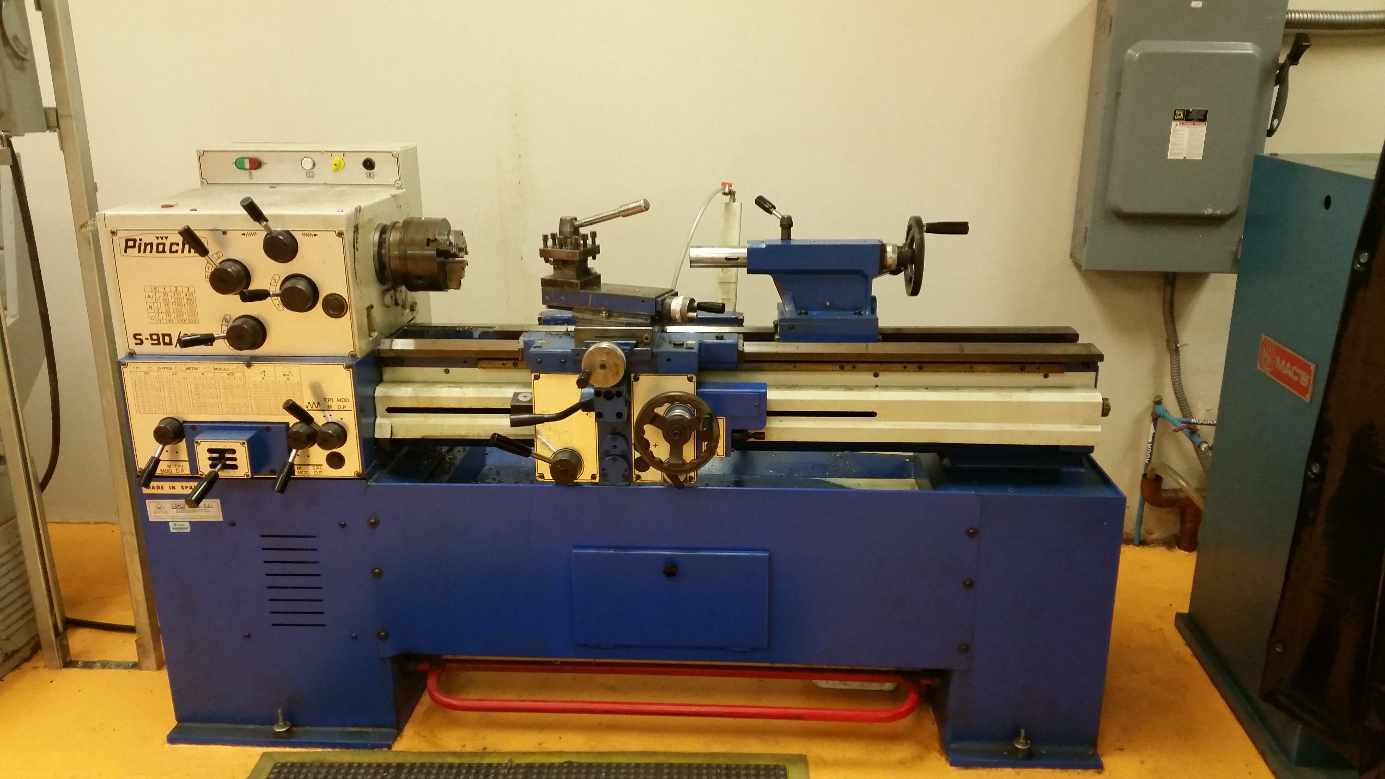 Lathe in the mechanical laboratory within Technological Development Center at Tecnologico de Monterrey, Campus Ciudad de Mexico.